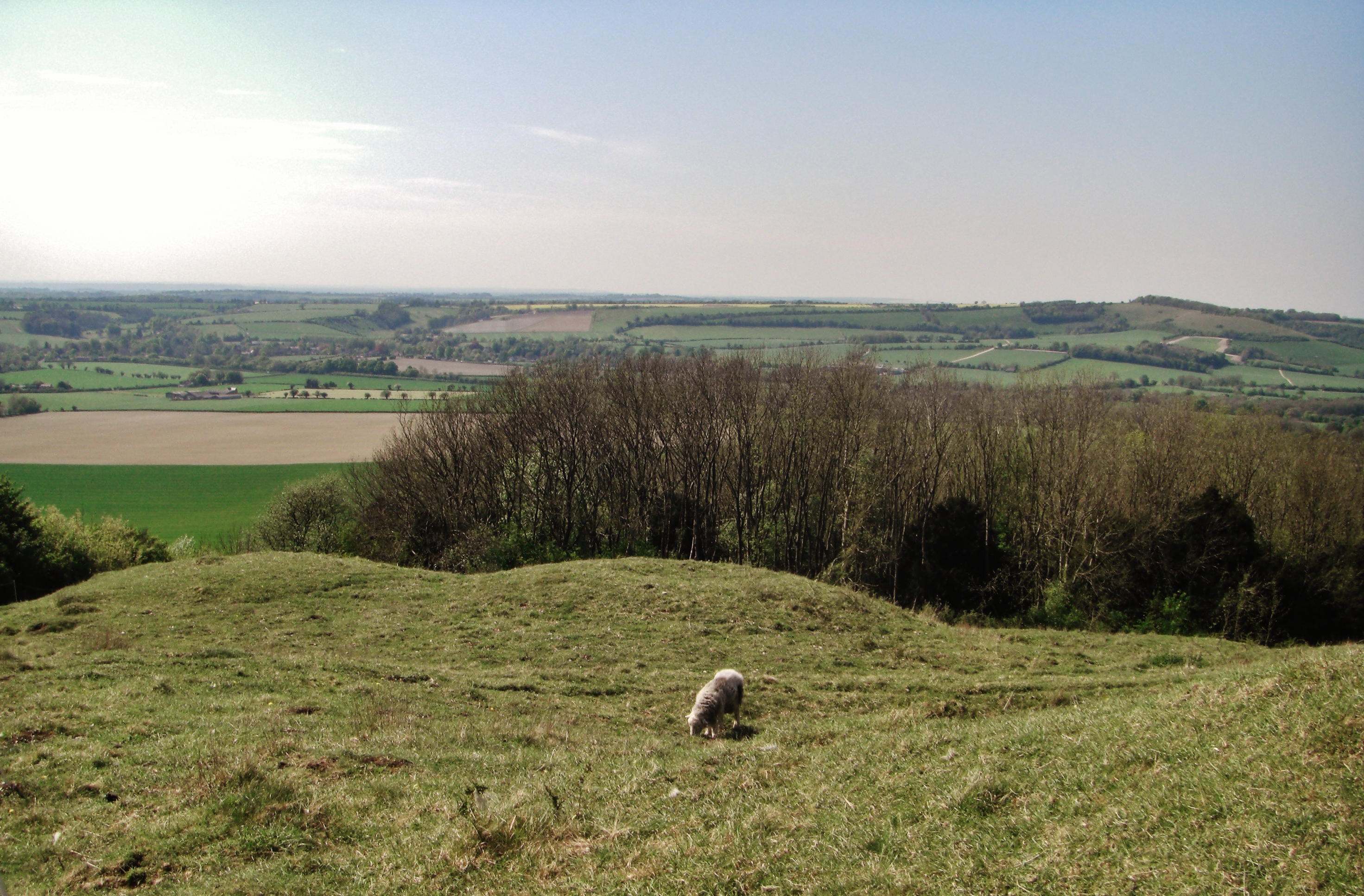 Some of the Late Prehistoric burial mounds located outside of the western entrance to the hillfort.